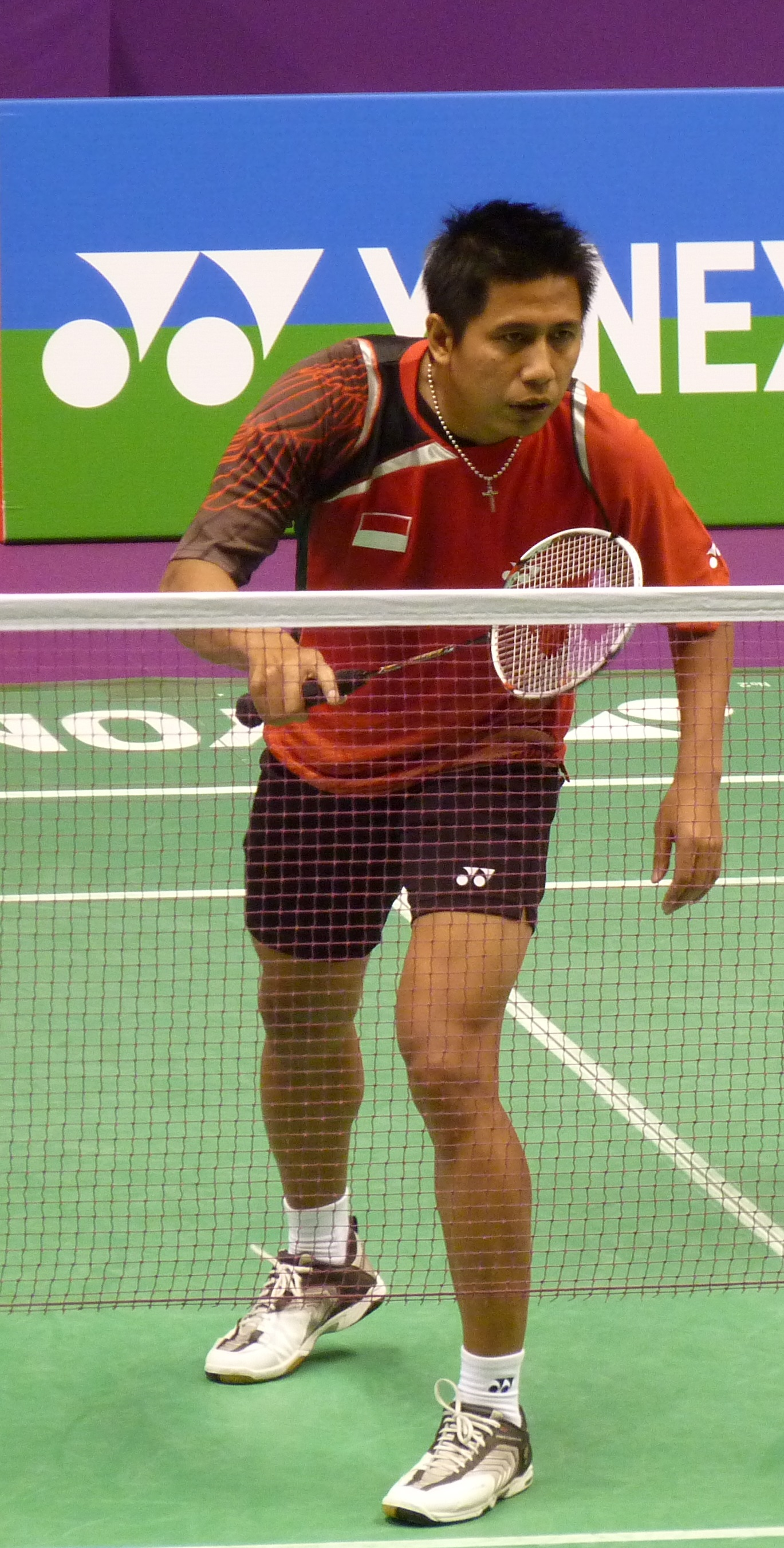 Nova Widianto (Indonesia)